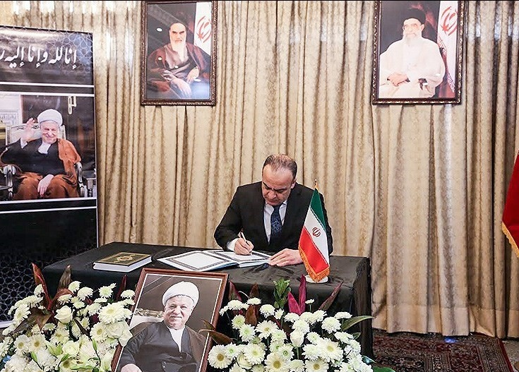 Syrian officials signs memorial book in honour of Akbar Hashemi Rafsanjani, former Iran's president in the country's embassy in Damascus